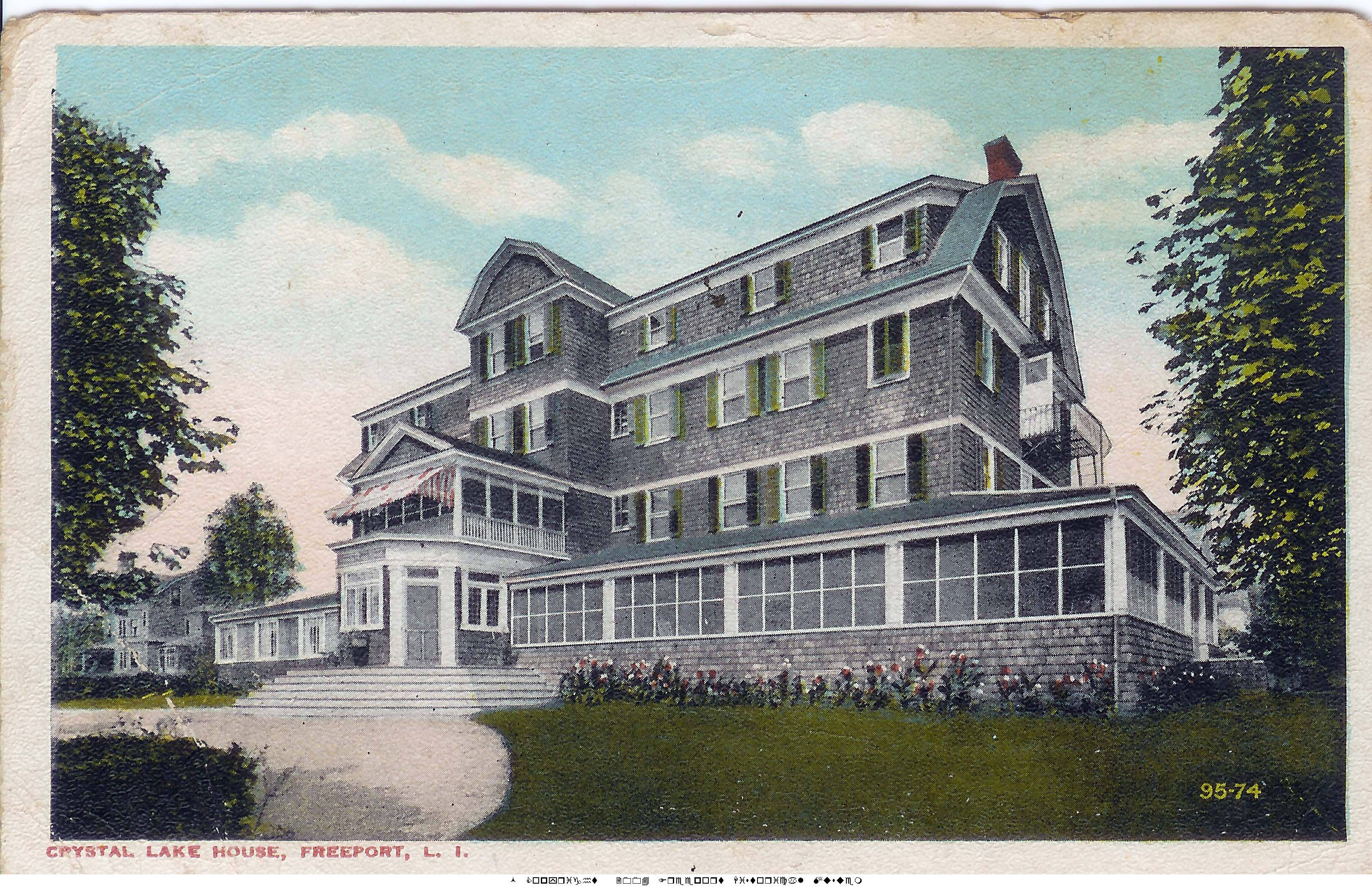 Postcard (sent 1919) of the Crystal Lake Hotel, Freeport, New York.